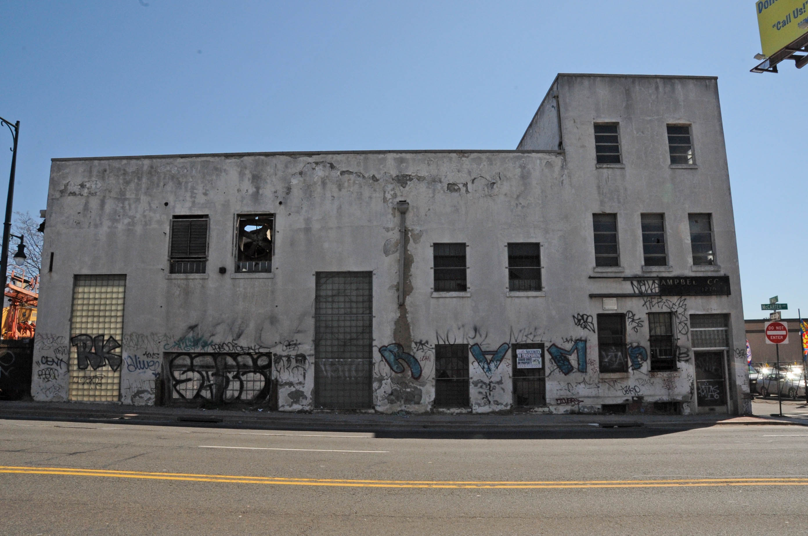 WATTS CAMPBELL SPECIALIZED IN BUILDING STEAM ENGINES AND IN REBUILDING OLD MACHINES. THE SECTION CURRENTLY ABUTTING MCCARTER HIGHWAY, STILL EXTANT, WAS THE FABRICATION DIVISION. DUE TO MANAGEMENT'S INABILITY TO UPGRADE EQUIPMENT, THE FACTORY GRADUALLY LOST CUSTOMERS DUE TO AGING AND SOMETIMES OUTDATED MACHINERY. AFTER HURRICANE SANDY A LARGE PORTION OF THE ROOF COLLAPSED, EXPOSING MANY OF THE HISTORIC MACHINES TO THE ELEMENTS. THE FACTORY IS NOW LARGELY UNOCCUPIED AND IN RAPIDLY DECAYING CONDITION